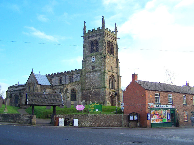 Wymeswold taken by kev747